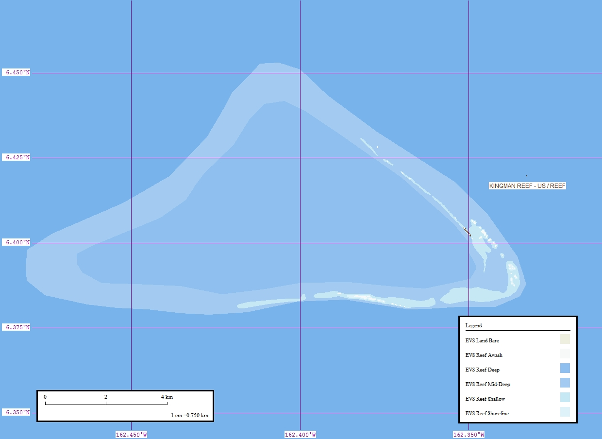 Kingman Reef - Marplot Map (1:75,000)